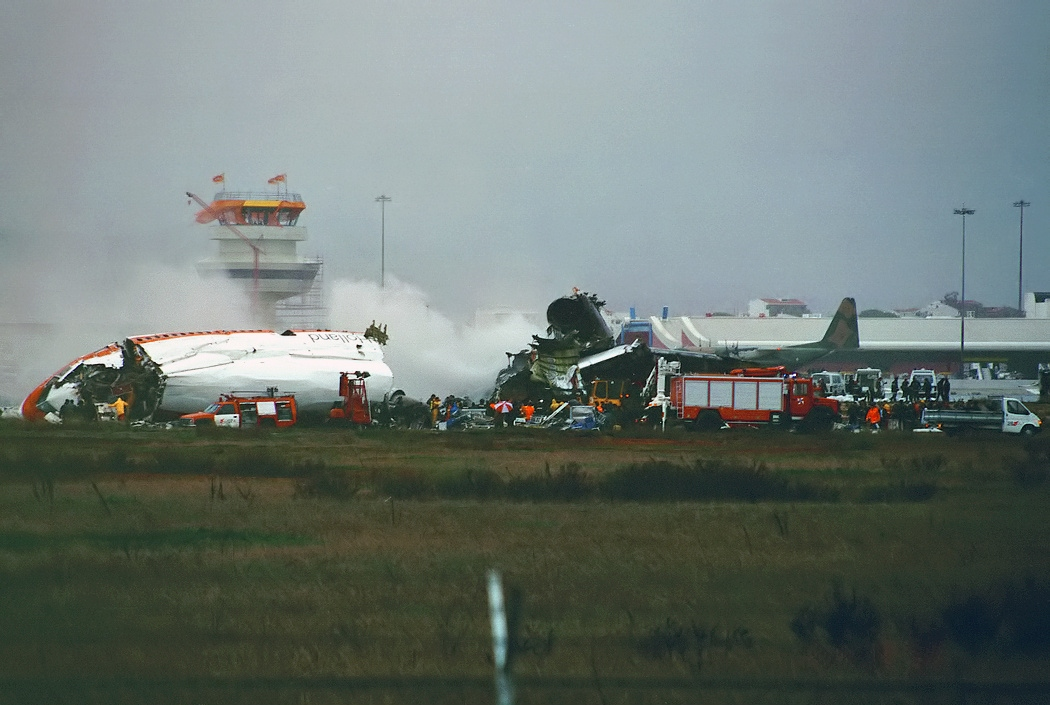 The worst accident in the history of Faro Airport - 09.35 AM , one hour after the crash.